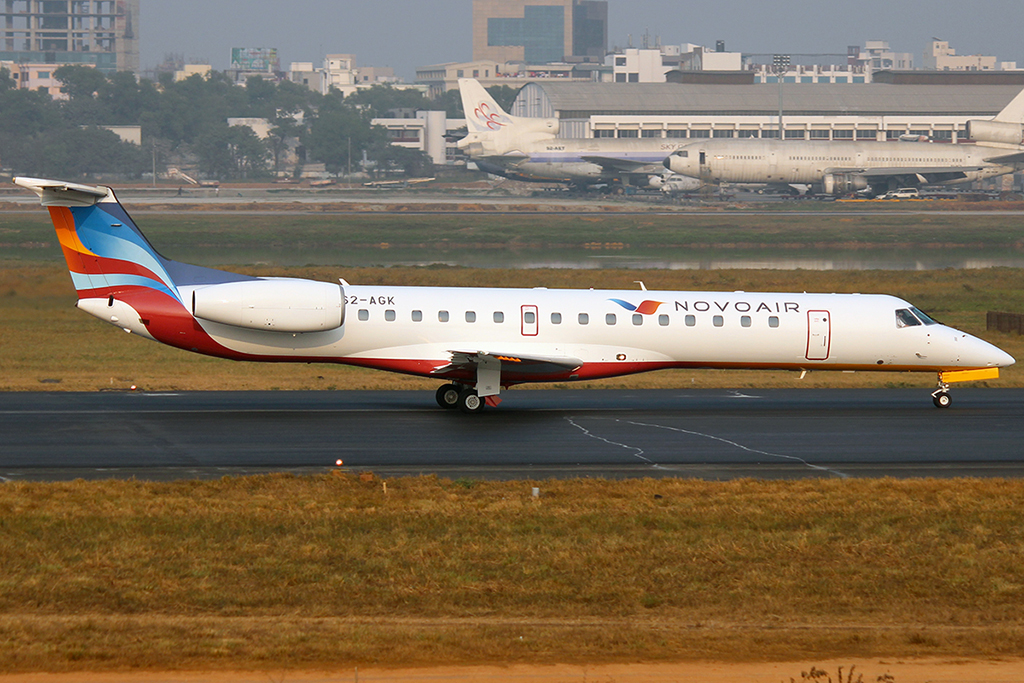 Novo Air : Embraer ERJ-145EU.